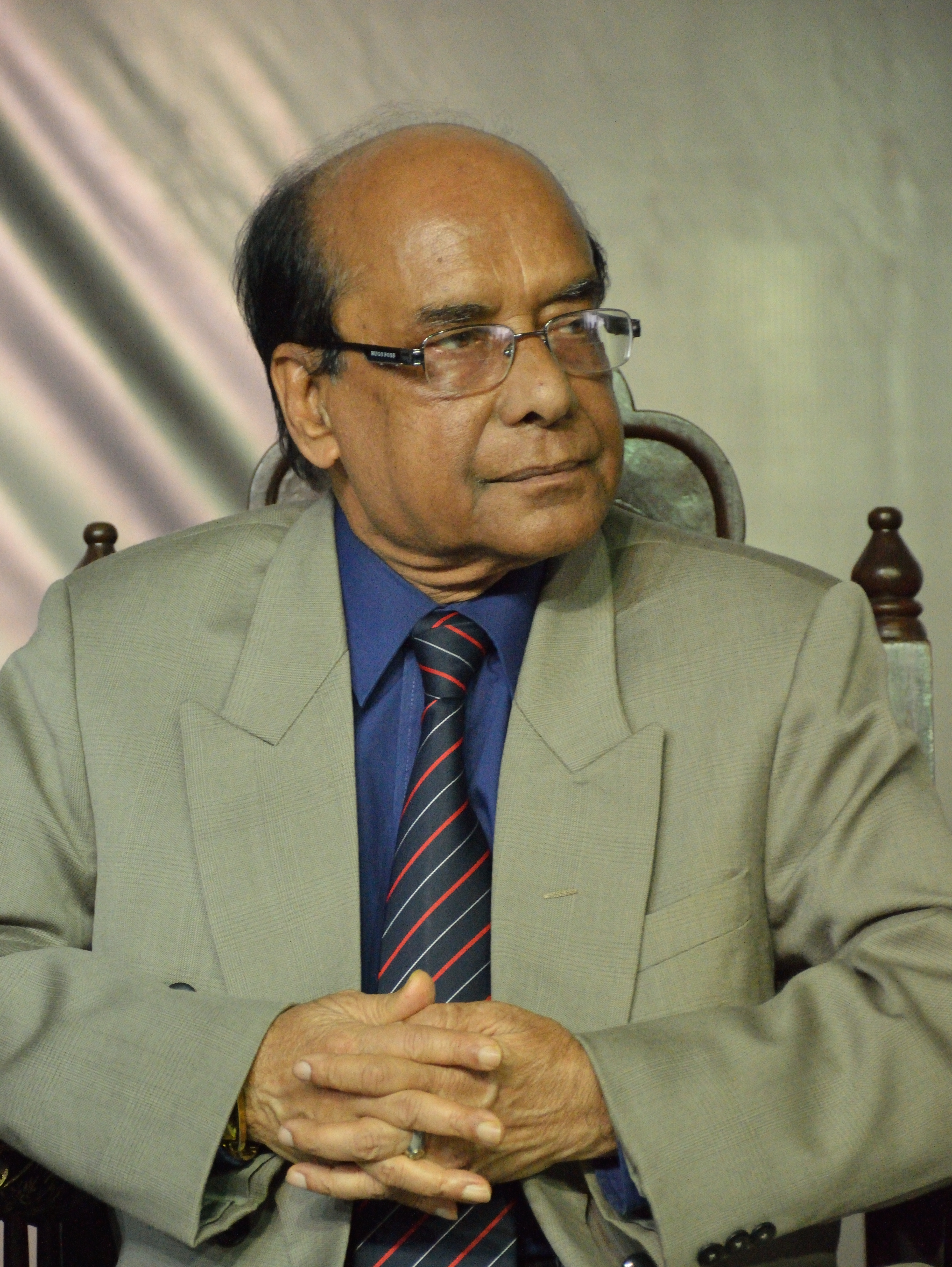 Photographed durintg the Indo-Bangla seminer: 'Bangaliyana O Baisbikata' (En: Bengali echoes and the Global Perspective) at the 40th International Kolkata Book Fair at Milan Mela Complex, Kolkata.